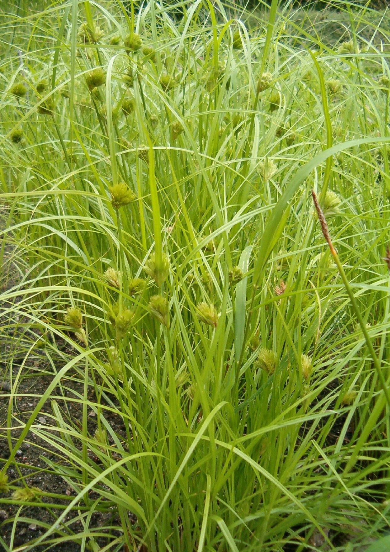 Location: Botanical Gardens Berlin Habitus and Inflorescence